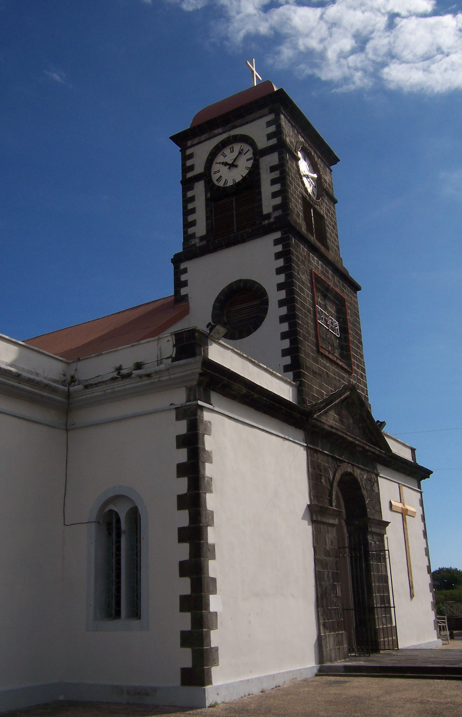 The front part of the church of Saint-Joseph (Réunion)